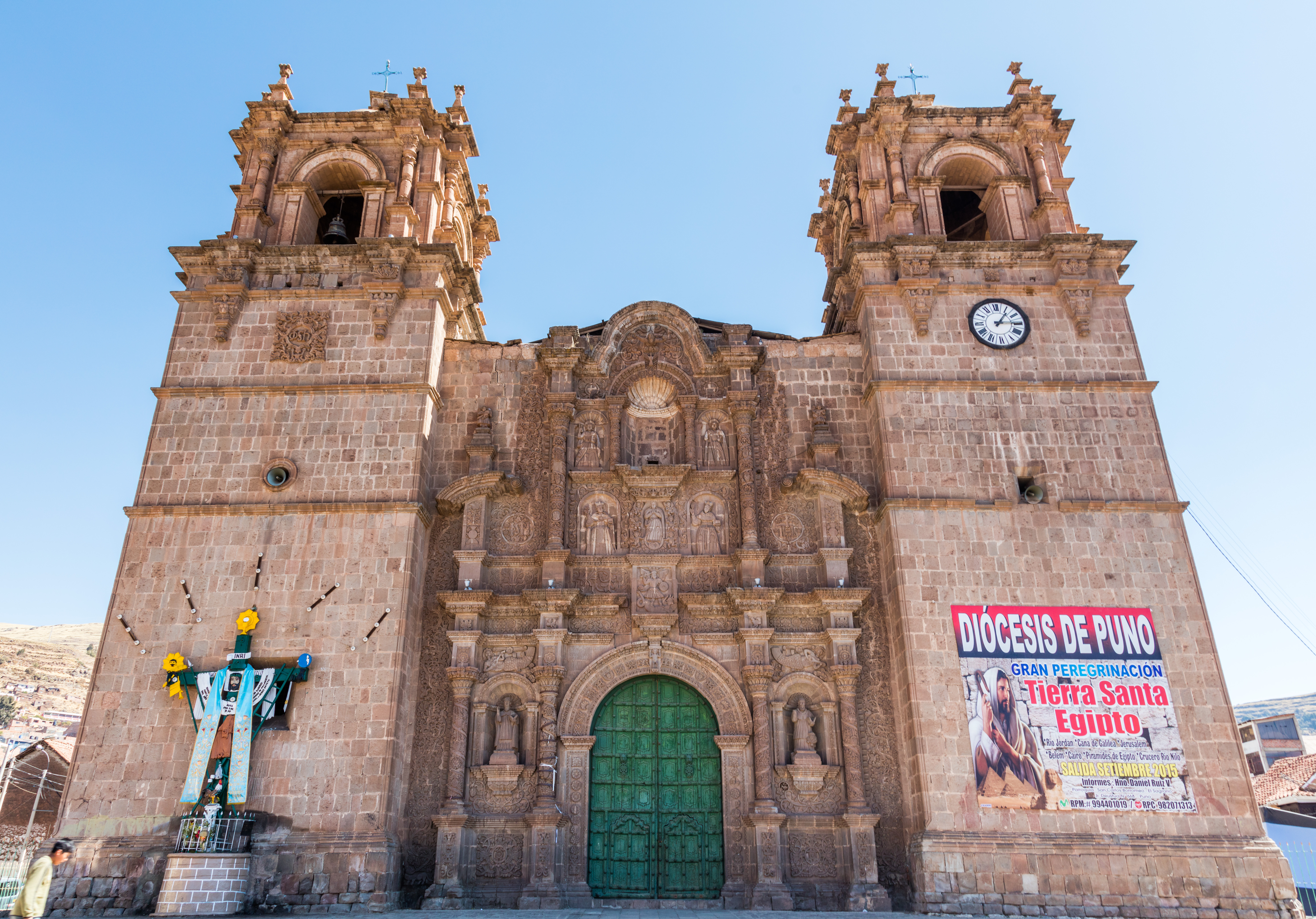 Cathedral, Puno, Peru